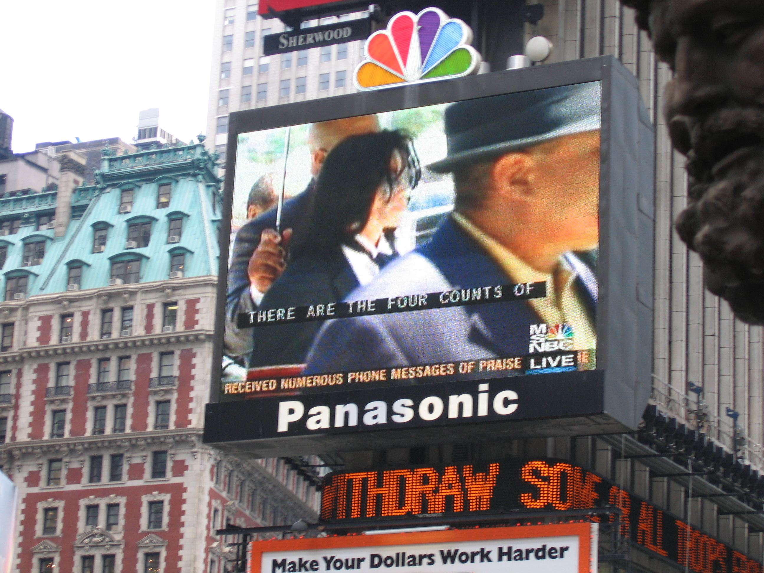 Image of Times Square in New York City.